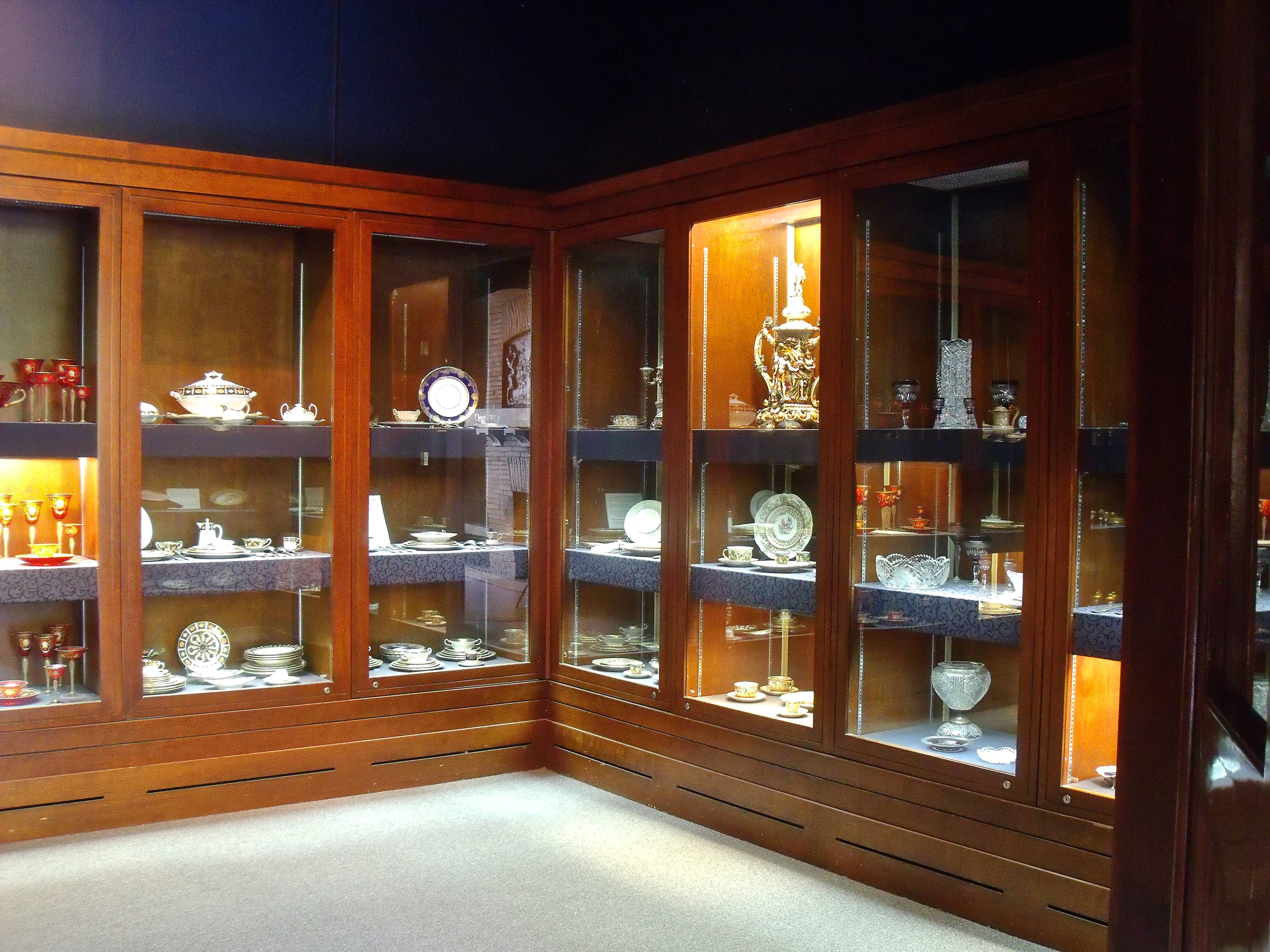 Show room, previously the kitchen and scullery, Oscar Dufresne House (Château Dufresne), 4040 Sherbrooke Street East, Montreal, Quebec, Canada.